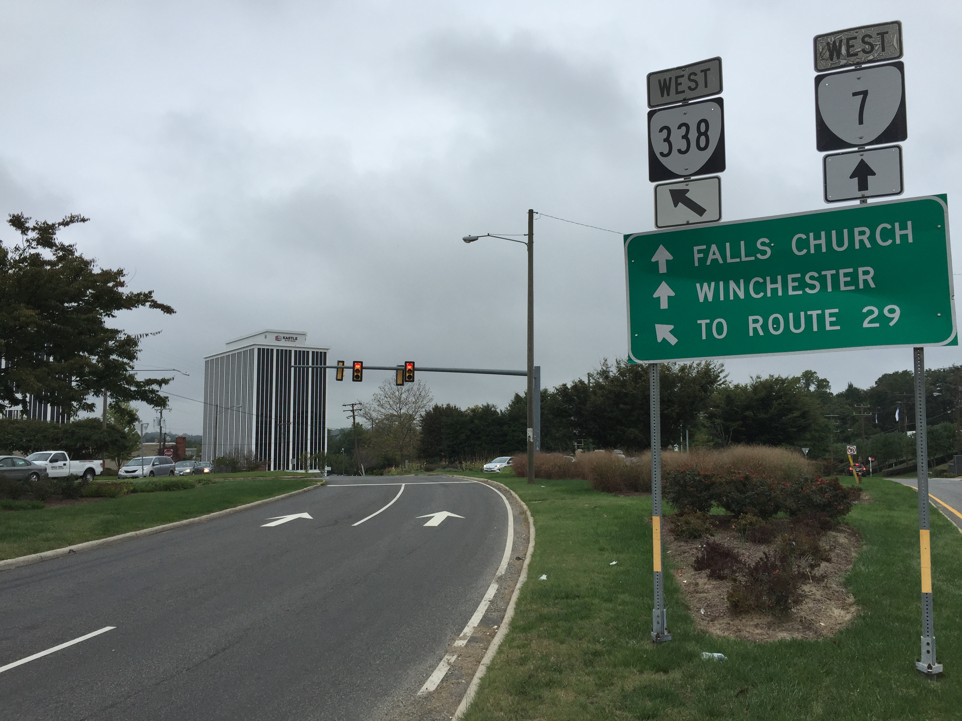 View west along Virginia State Route 338 (Hillwood Avenue) at Virginia State Route 7 (Leesburg Pike) in Seven Corners, Fairfax County, Virginia